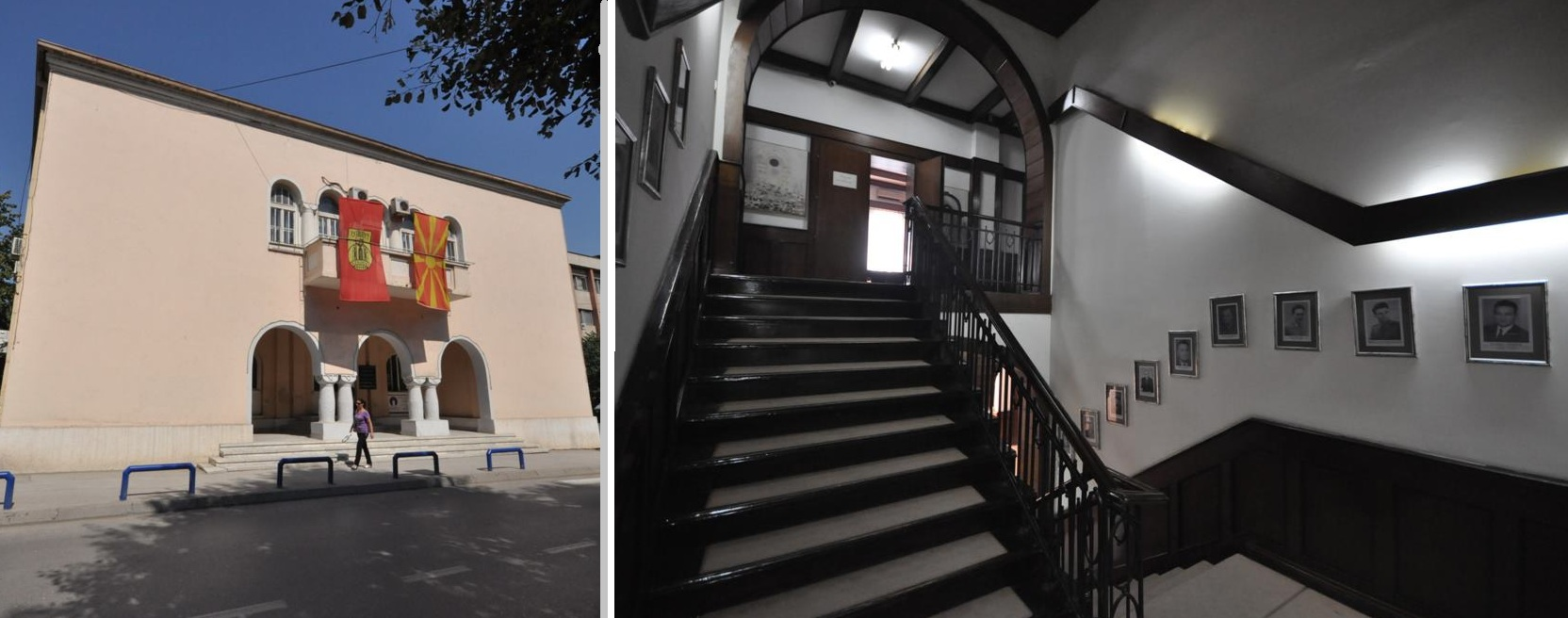 Municipal building in Kumanovo (former Ottoman police station)- outside and inside view